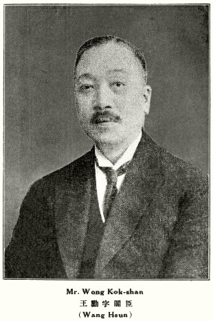 Wang Xun (1872-?)